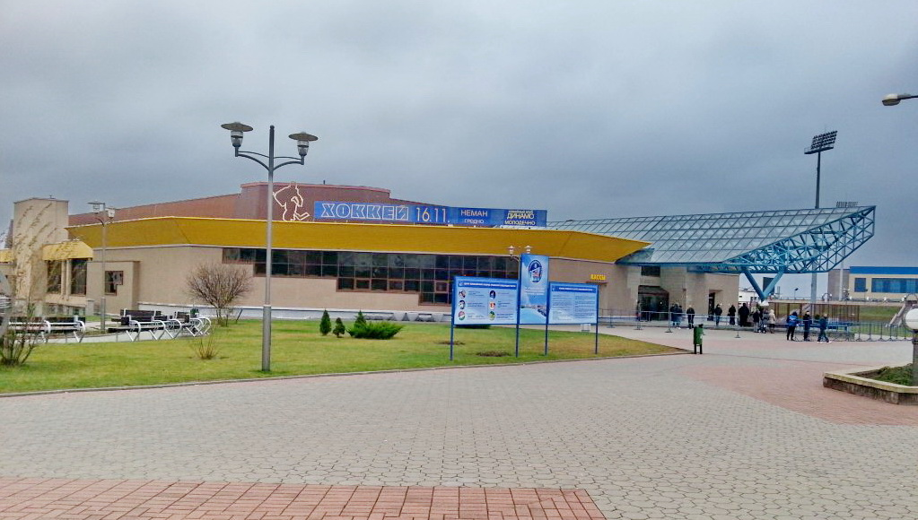 The Grodno Ice Sports Palace